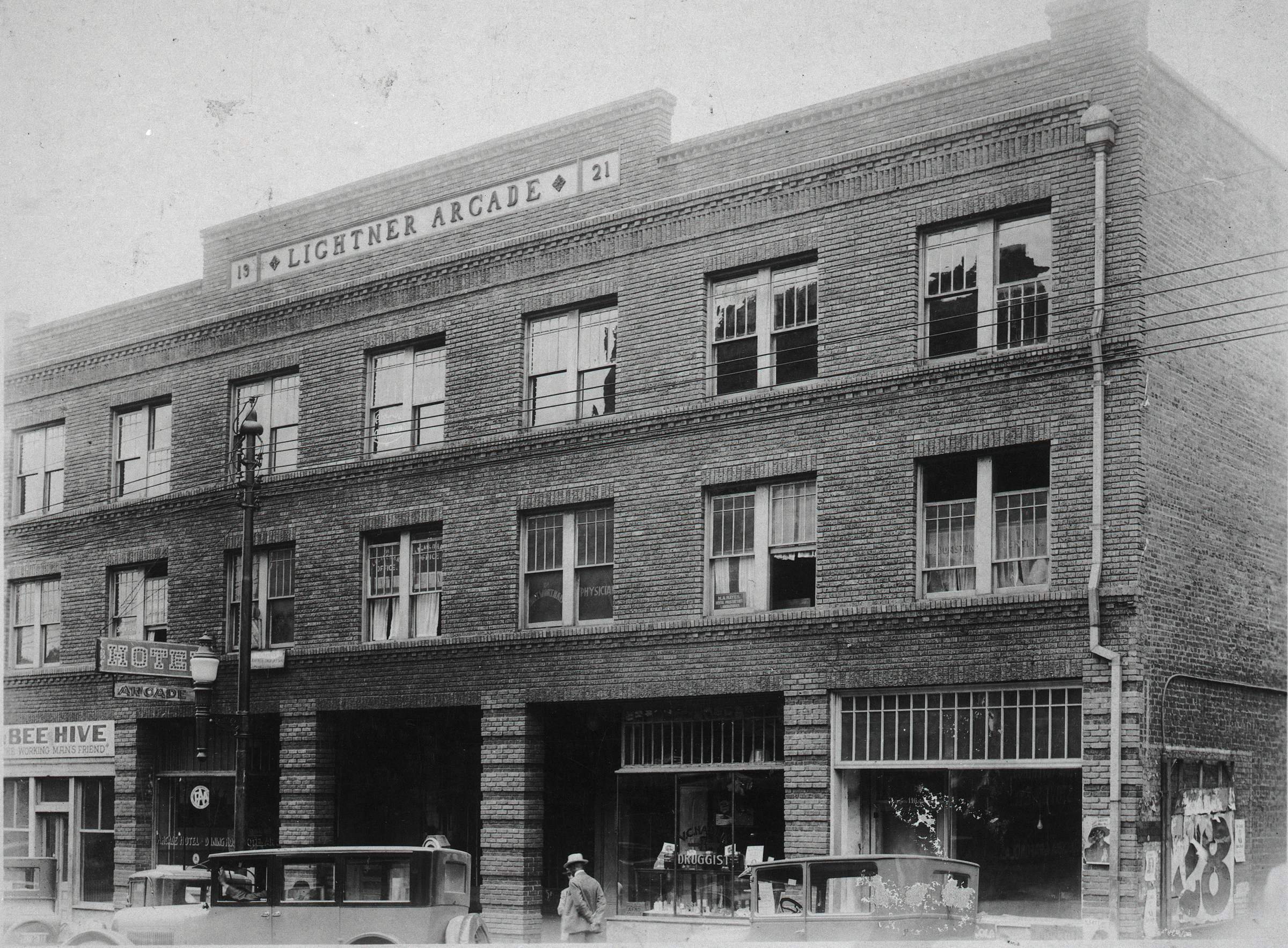 Lightner Arcade (1921) In the early 1910s, East Hargett Street emerged as the city's business center and social hub for the African-American community during the segregation era — Raleigh's “Black Main Street.” Calvin E. Lightner, prominent Raleigh builder, businessman, and funeral home operator, erected the Lightner Arcade and Hotel at 122 East Hargett Street in 1921. The Arcade‘s design was typical of urban commercial buildings of the era. The building featured a ballroom, meeting space and hotel rooms on the upper floors, with commercial space at street level. At the time, the Arcade was Raleigh’s only hotel that catered to African-Americans. Among those who stayed there were Cab Calloway, Count Basie, and Duke Ellington, who performed in the upstairs ballroom. Clarence Lightner, Calvin’s son, remembered later that “all the big bands would be at the Arcade. On Saturday you could not get through there. That is where everyone would come and congregate. They would be standing out on the street, socializing.” Lightner eventually lost ownership of the building. The N.C. Homemakers Association acquired the Arcade in the late 1940s, and changed its name to the Home Eckers Hotel. In the 1960s the Peebles Hotel occupied the building until a fire destroyed it in 1970. Raleigh’s central municipal bus depot now occupies the site. From the General Negatives Collection, State Archives of North Carolina, Raleigh, NC.